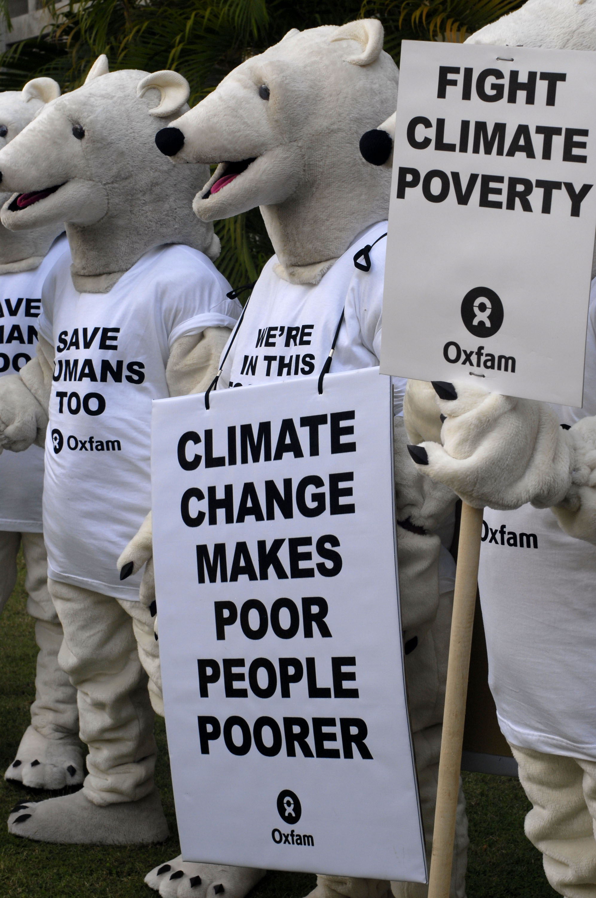 Demonstration against impoverishment due to climate change. Photo: Ng Swan Ti, .